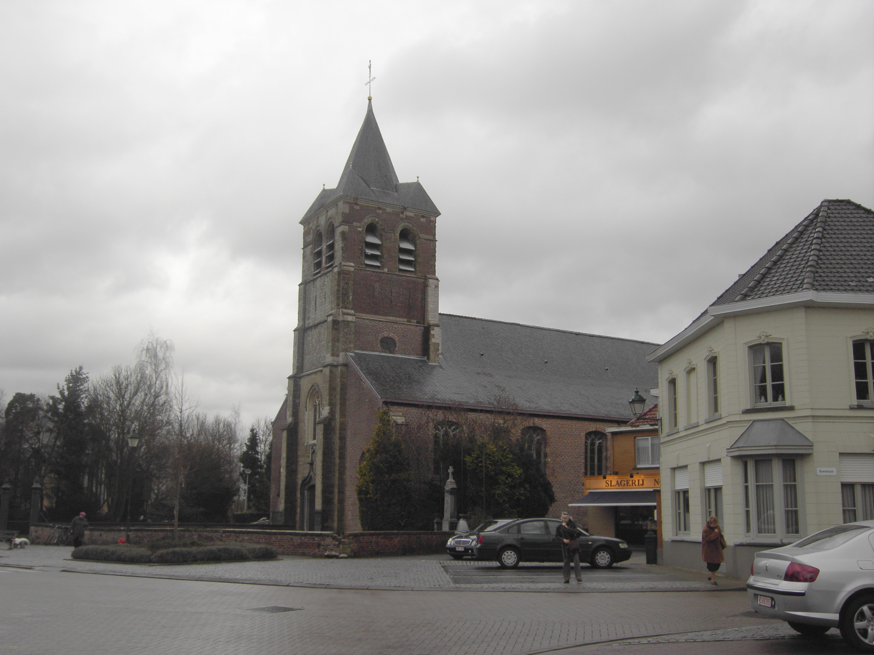 Church of Our Lady in Zandbergen. Zandbergen, Geraardsbergen, East Flanders, Belgium